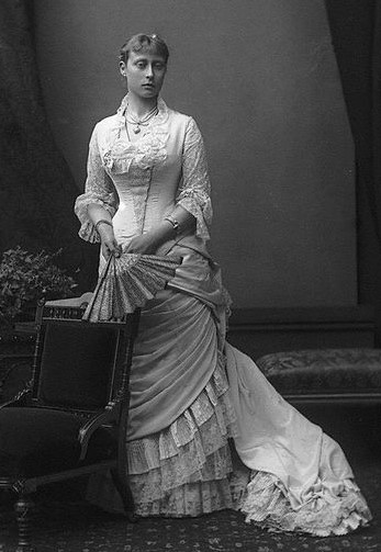 Princess Victoria, Marchioness of Milford-Haven (1863–1950), Granddaughter of Queen Victoria; wife of Prince Louis of Battenberg, 1st Marquess.